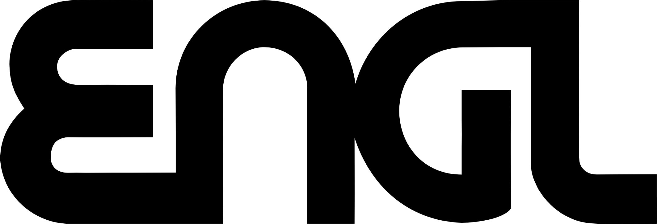 Company logo of ENGL Geraetebau GmbH